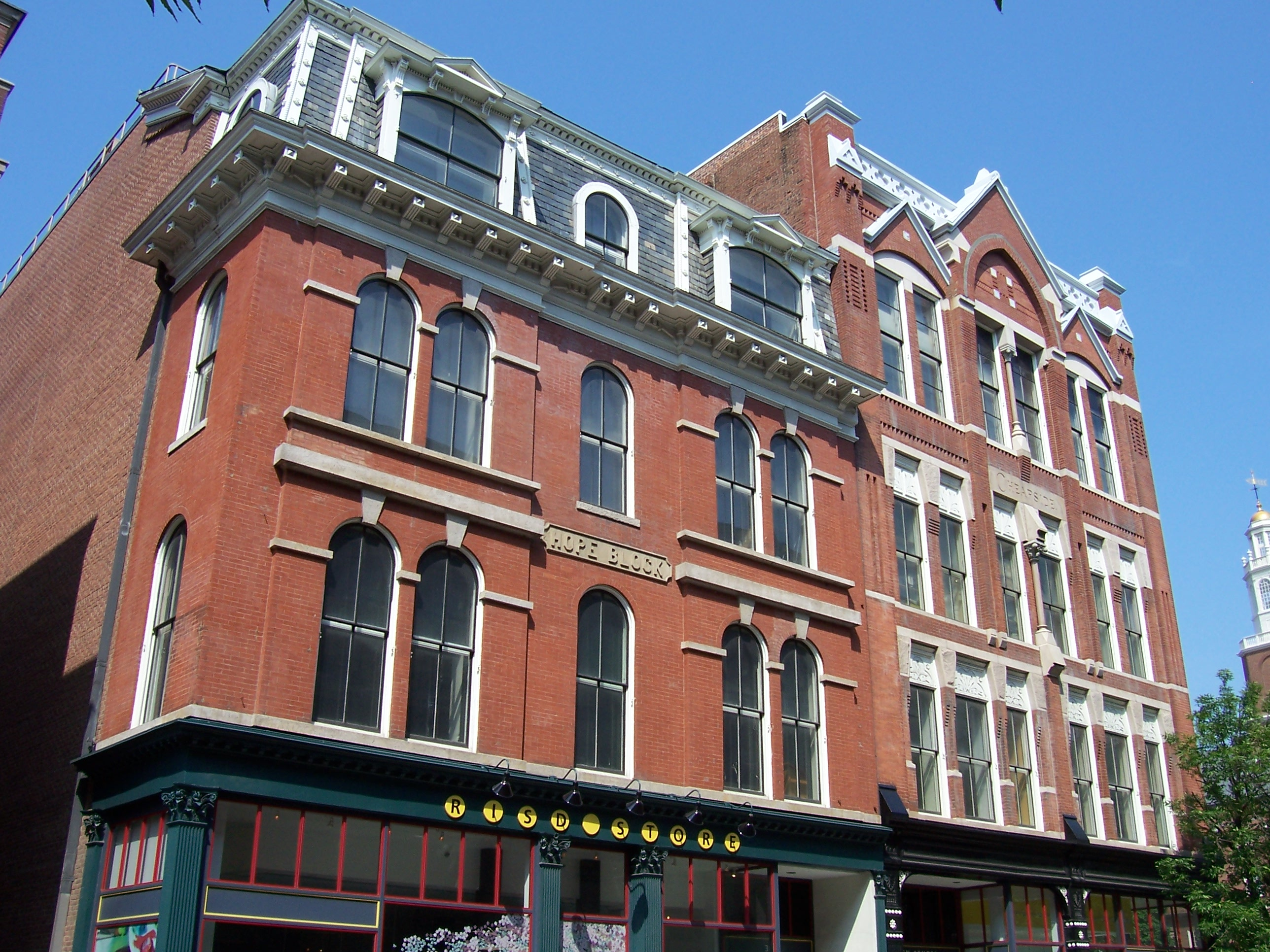 Rhode Island School of Design store